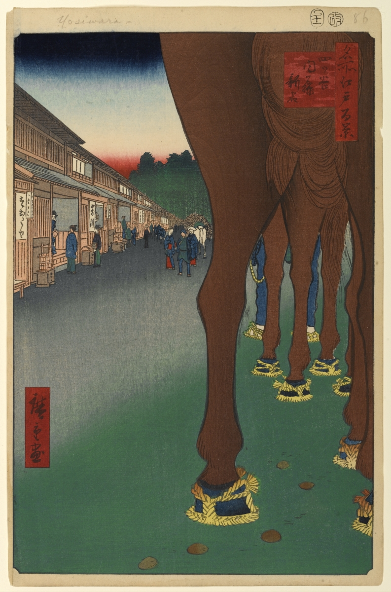 Part of the series One Hundred Famous Views of Edo, no. 086, part 3: Autumn.